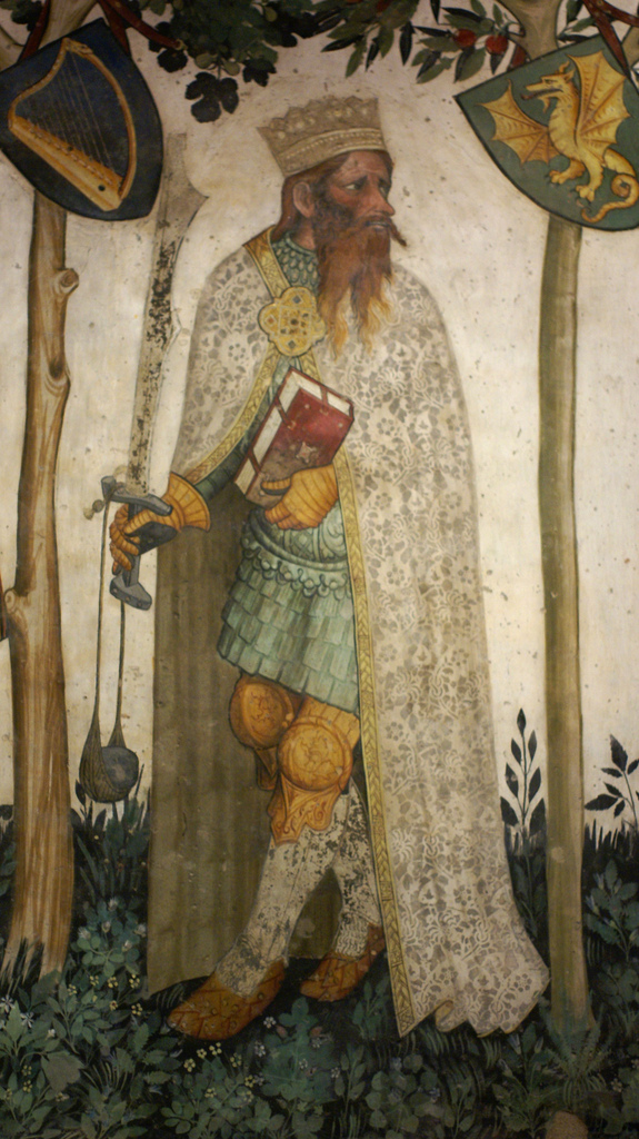 Frederick I of Saluzzo as King David